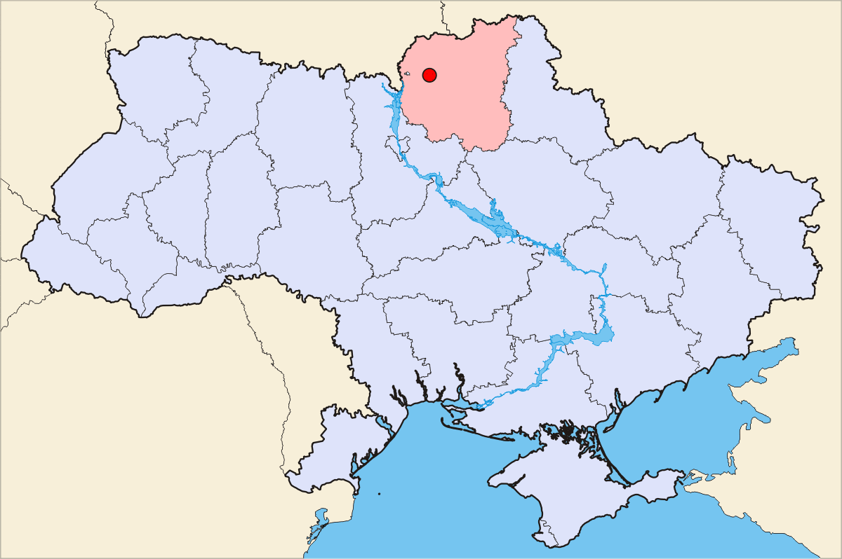 Position of Chernihiv in Ukraine